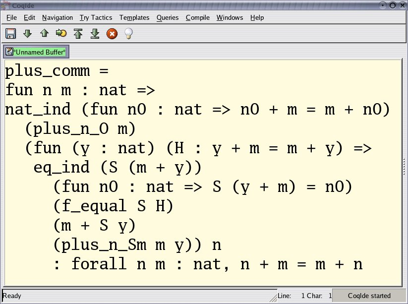 Snapshot of the definition of the Coq standard library constant plus_comm displayed in LGPL software CoqIDE